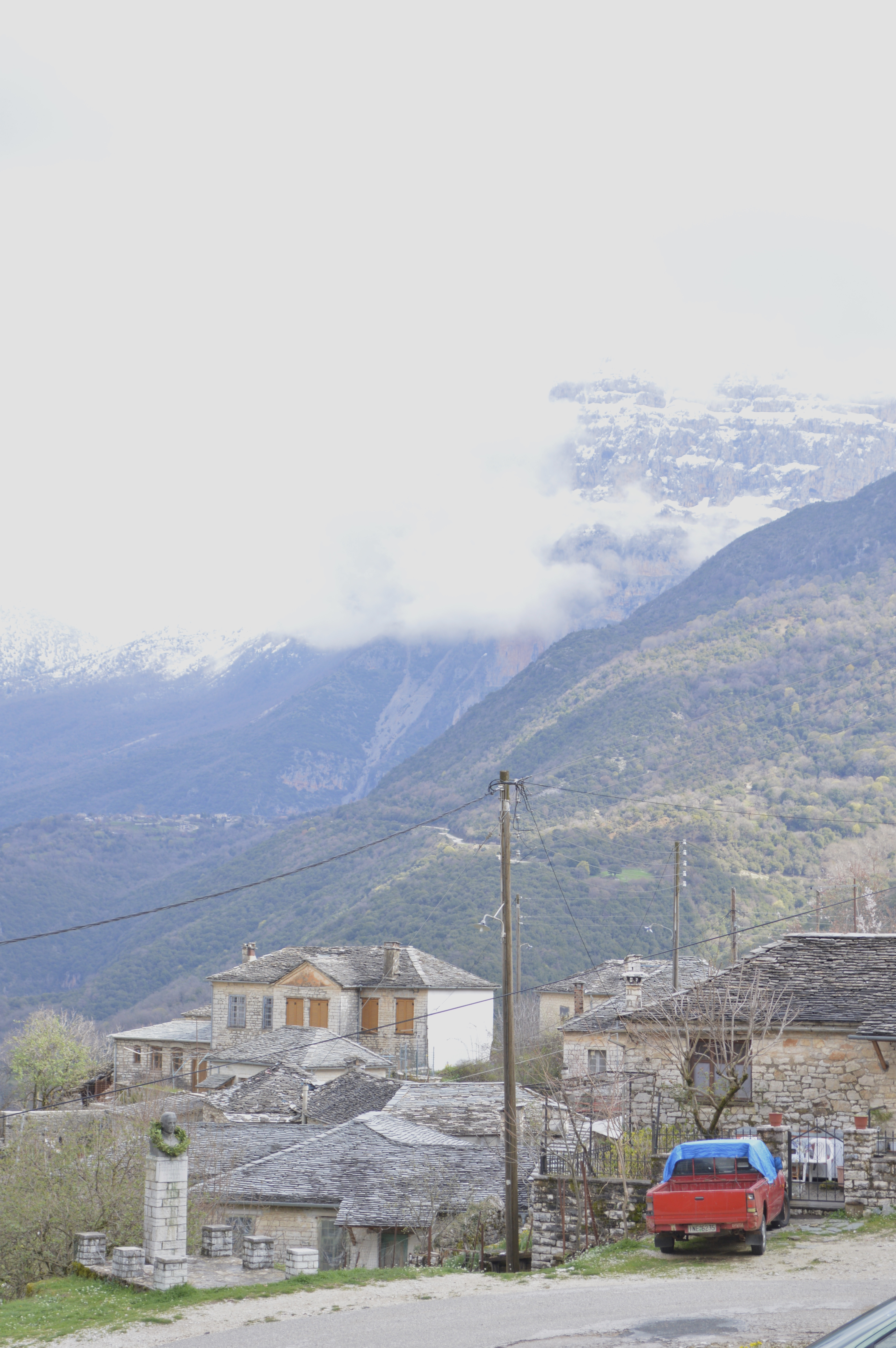 This is a photography of Natura 2000 protected area with ID GR2130004